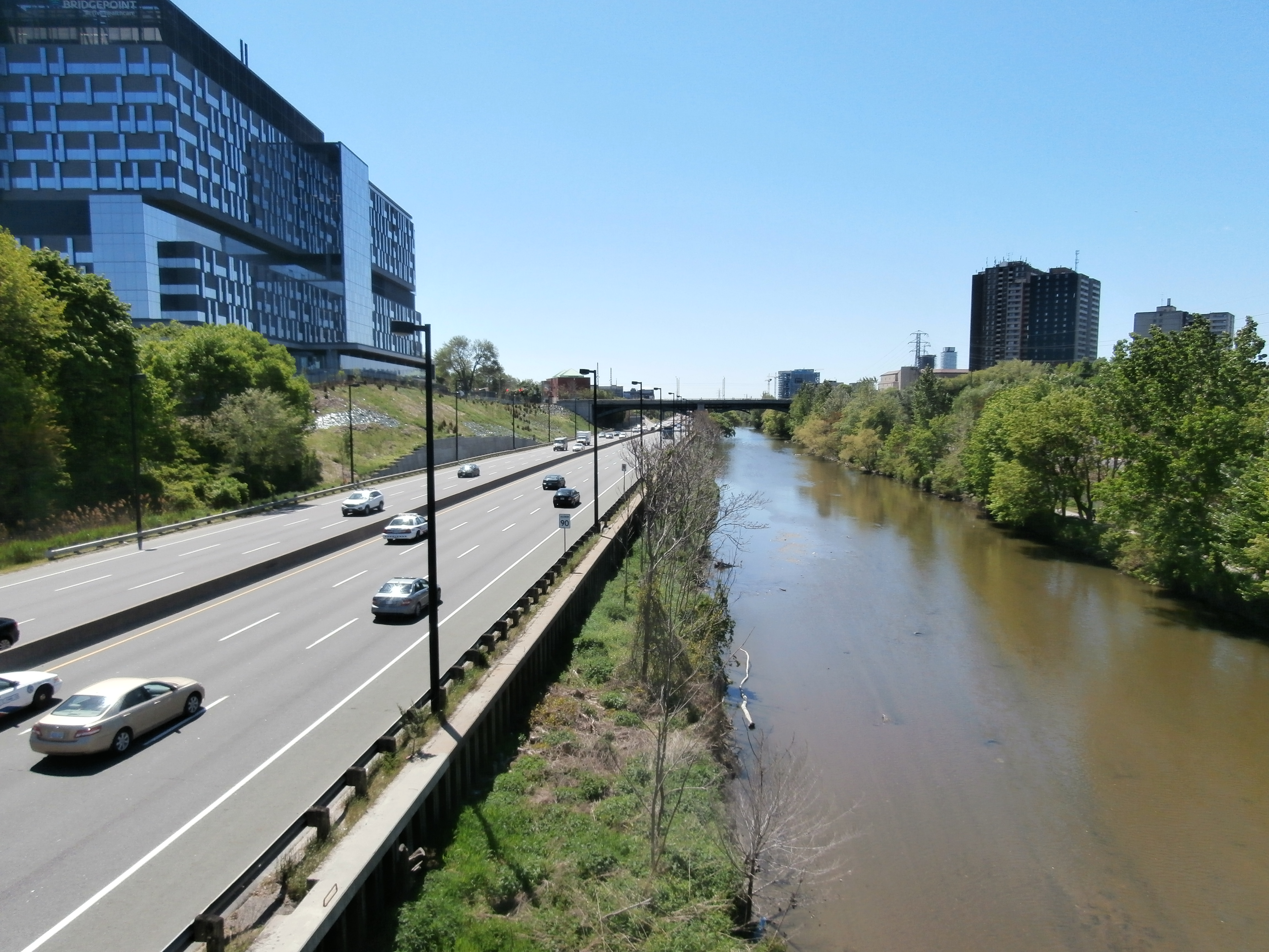 The Don Valley Parkway, with the Don River and the new wing of the Bridgepoint Health facility. Toronto, Ontario, Canada. Looking south towards Gerrard Street Bridge.